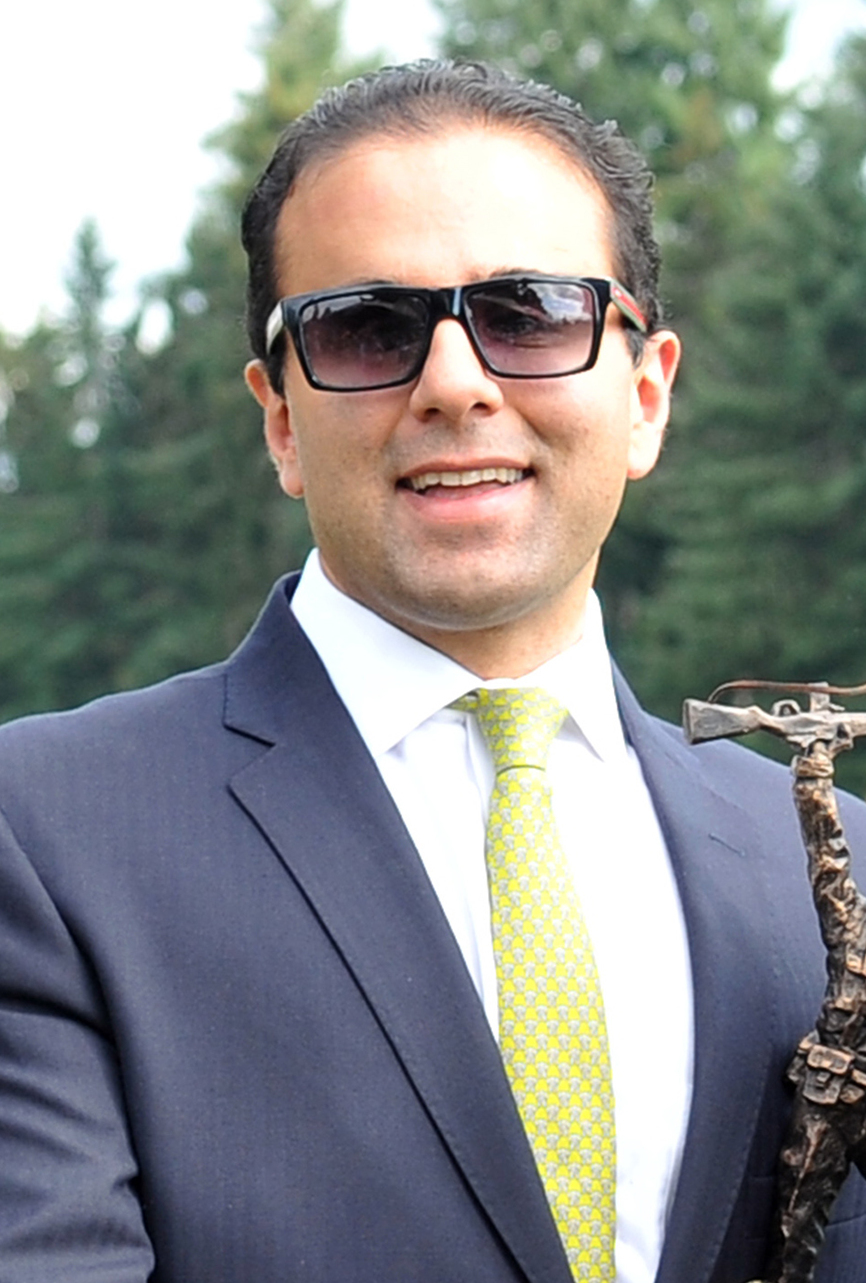 Lt. Governor Habib speaking before a formation of Soldiers and Airmen at the August 18th Centennial Celebration on Watkins Field at Washington state’s largest military installation, Joint Base Lewis-McChord. He opened the event’s speaking program with a tribute to the legacy of service that Joint Base Lewis-McChord represents to Washington state. Lieutenant General Garry A. Volesky Commanding General of America's First Corps and Joint Base Lewis McChord photographed.